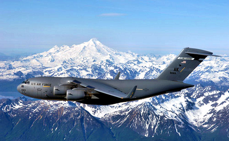 249th Airlift Squadron - Boeing C-17A Lot XI Globemaster III 99-0169 The "Spirit of Denali" flies over the Alaska Range June 11 en route to Elmendorf Air Force Base, Alaska. This C-17 Globemaster IIIs was the first of eight to be stationed at Elmendorf. The airlifters will be flown by both active duty aircrews in the 517th Airlift Squadron and by Air National Guard aircrews in the 249th Airlift Squadron. (U.S. Air Force photo/Tech. Sgt. Keith Brown) Login to post comments • Thumbnail